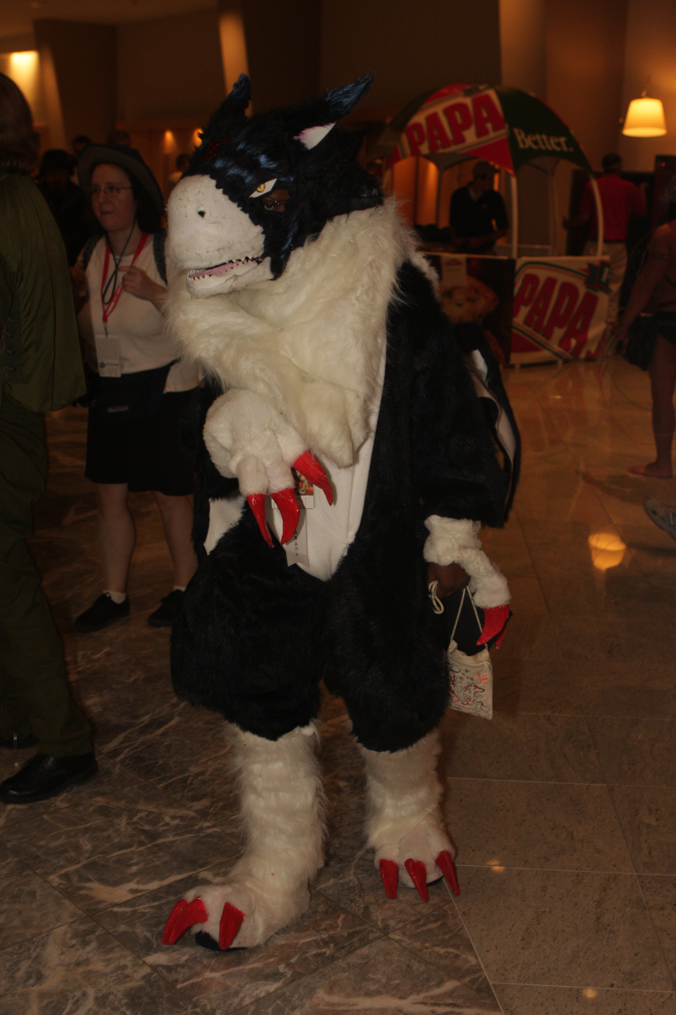 Dorugamon cosplay.